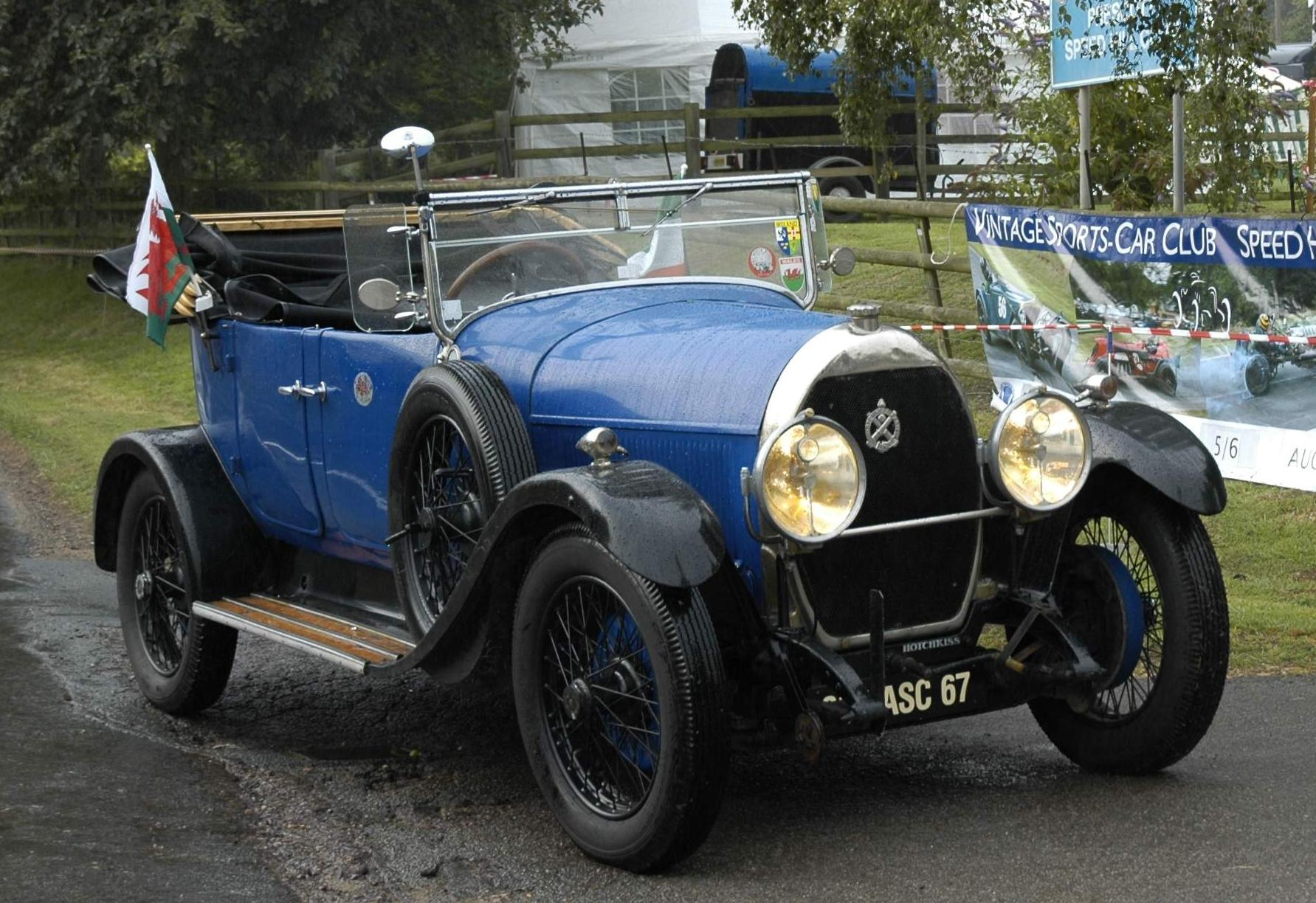 Subject: Hotchkiss AM2 Torpedo Author: Luc106 Date: 25th July, 2007 This photo was taken from another Commons' picture, whose name is: Image:2 Prescott Hill.JPG'. I've made a zoom of the original picture to show a better view of the car. I release all rights in the public domain.